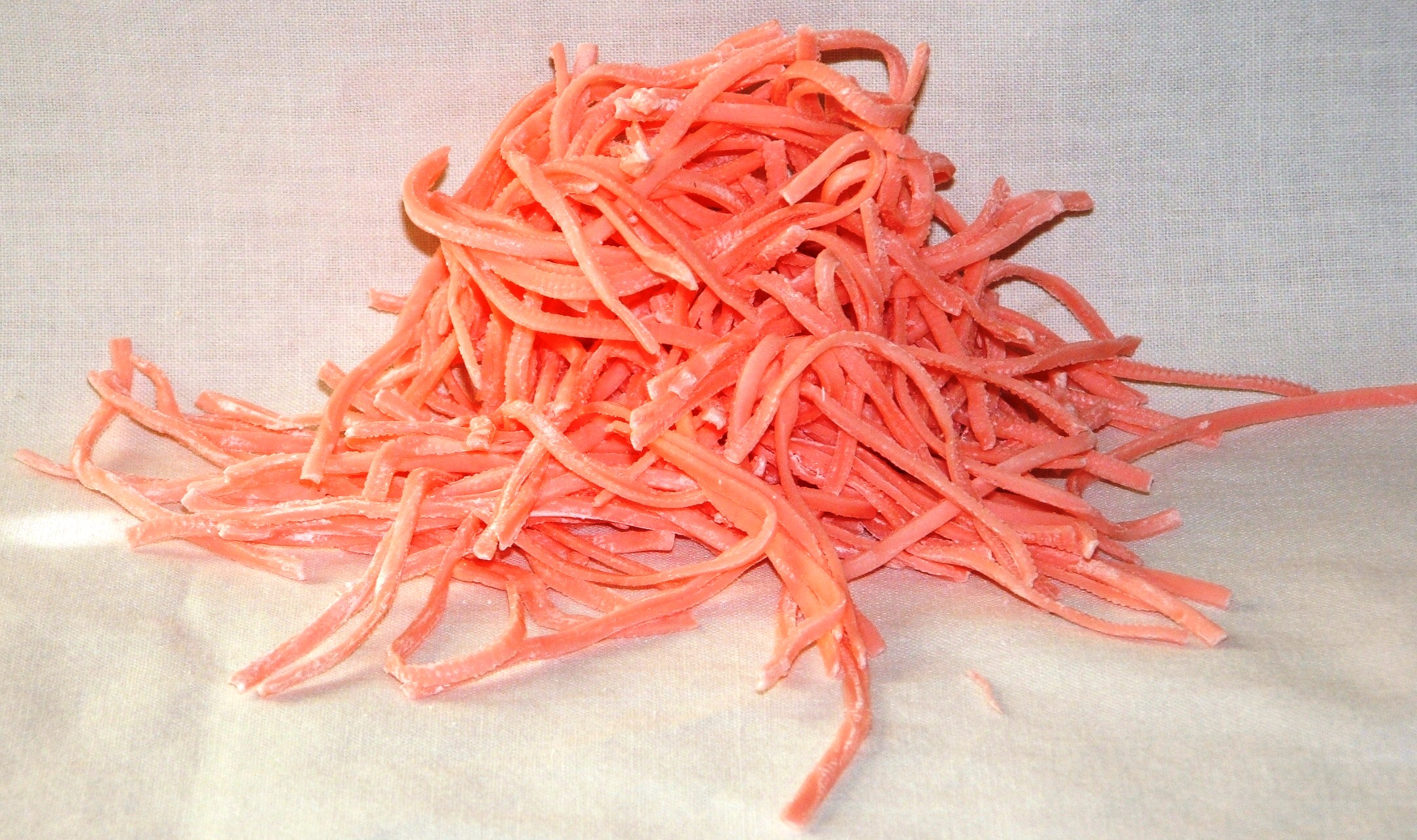 Original flavor Big League Chew bubble gum by Wm. Wrigley Jr. Company, USA - "Outta' Here Original" - created based on an idea by Portland Mavericks baseball players Rob Nelson and Jim Bouton